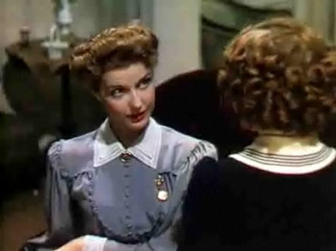 Screenshot of Anita Louise from the film The Little Princess